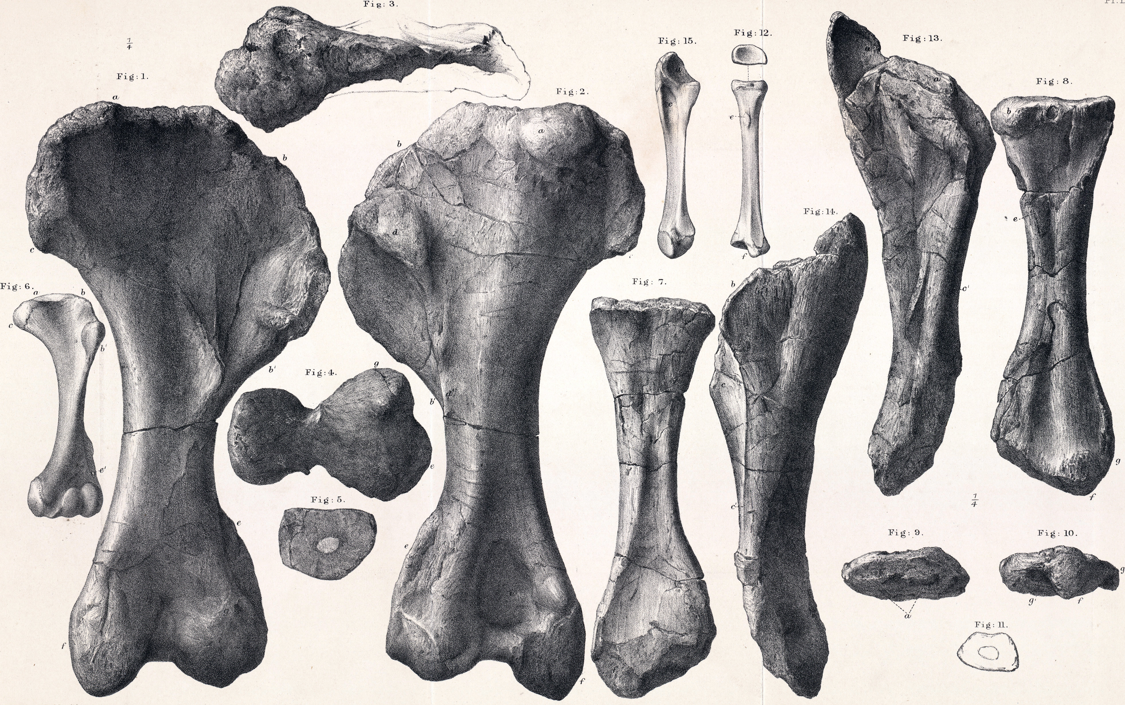 Omosaurus armatus. Fig. 1. Thenal or palmar surface of the left humerus. Fig. 2. Anconal surface of the same. Fig. 3. Proximal end of the same. Fig. 4. Distal end of the same. Fig. 5. Transverse section of narrowest part of the shaft of the same. Fig. 6. Thenal surface of the left humerus of a Monitor niloticus. Fig. 7. Anconal surface of the left radius. Fig. 8. Thenal surface of the same. Fig. 9. Proximal end of the same. Fig. 10. Distal end of the same. Fig. 11. Transverse section of narrowest part of the shaft of the same. Fig. 12. Thenal surface and proximal end of the left radius of a Monitor niloticus. Fig. 13. Radial surface of the left ulna. Fig. 14. Ulnar surface of the same. Fig. 15. Radial surface of the left ulna of a Monitor niloticus. Figs. 1-5, 7-11, 13 and 14, are figured one fourth the natural size, from the Kimmeridge Clay at Swindon, Wilts. In the British Museum. Figs. 6, 12, 15, are of the natural size.